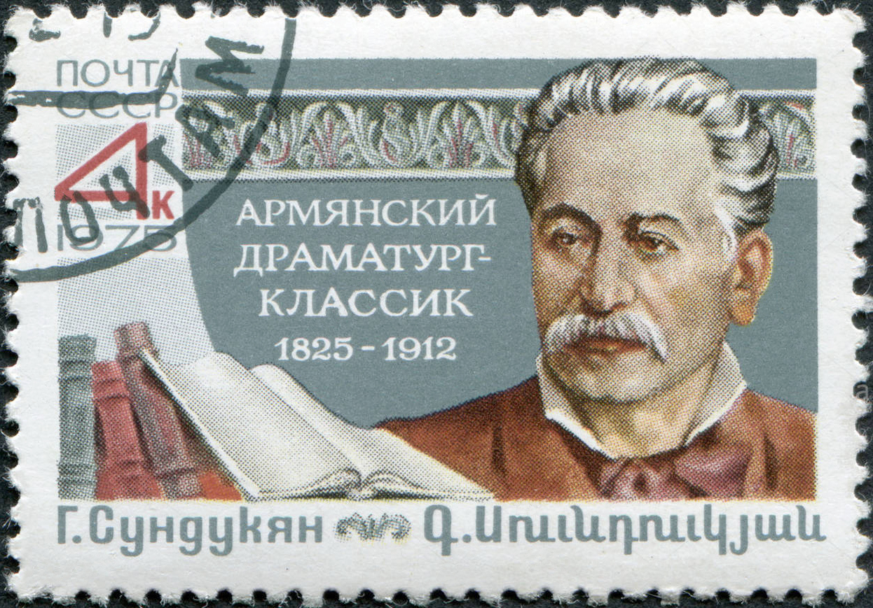 Soviet stamp SU 4427